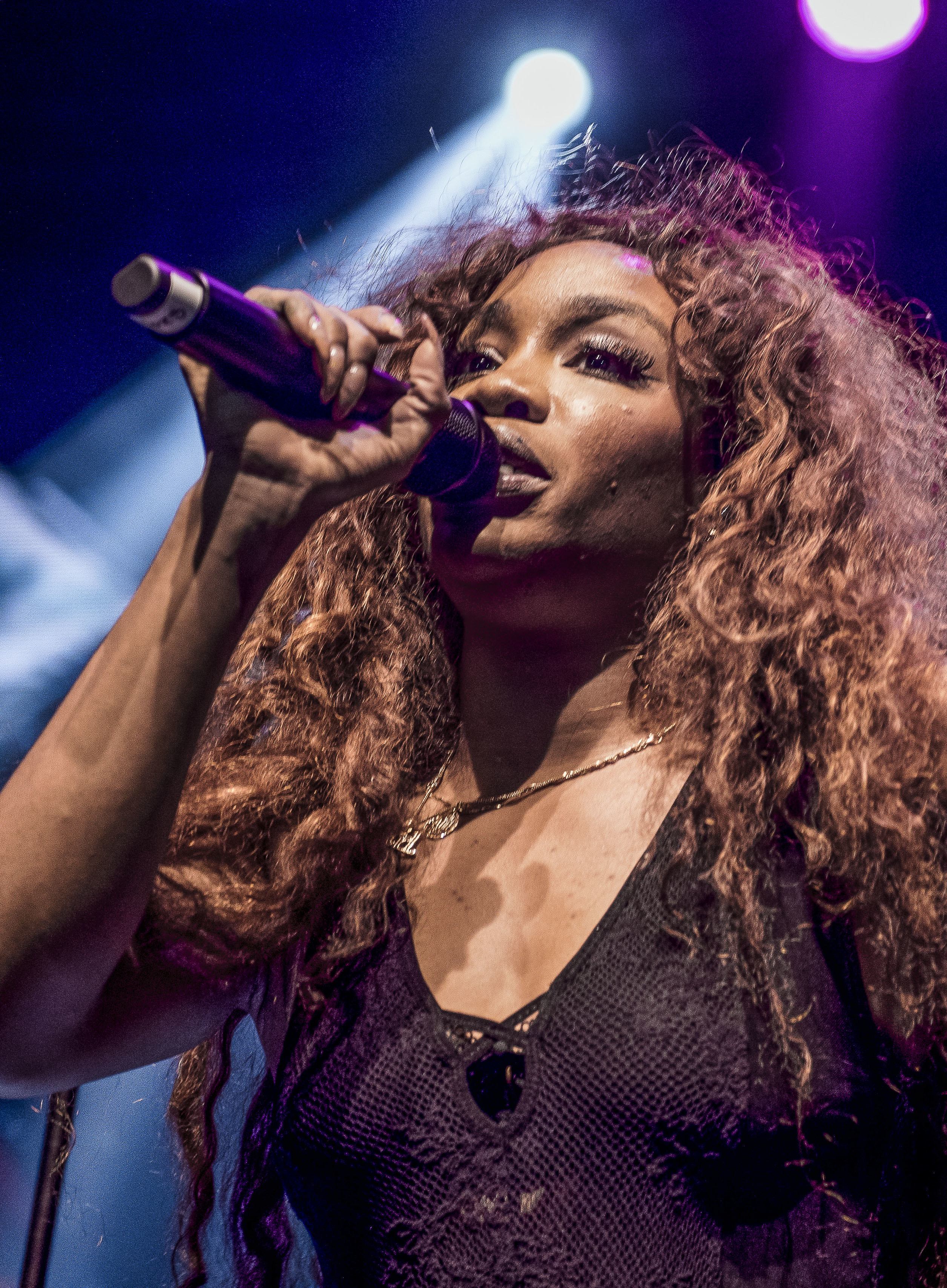 American R&B singer SZA performing at REBEL on August 23, 2017 in Toronto, Canada on Ctrl the Tour.